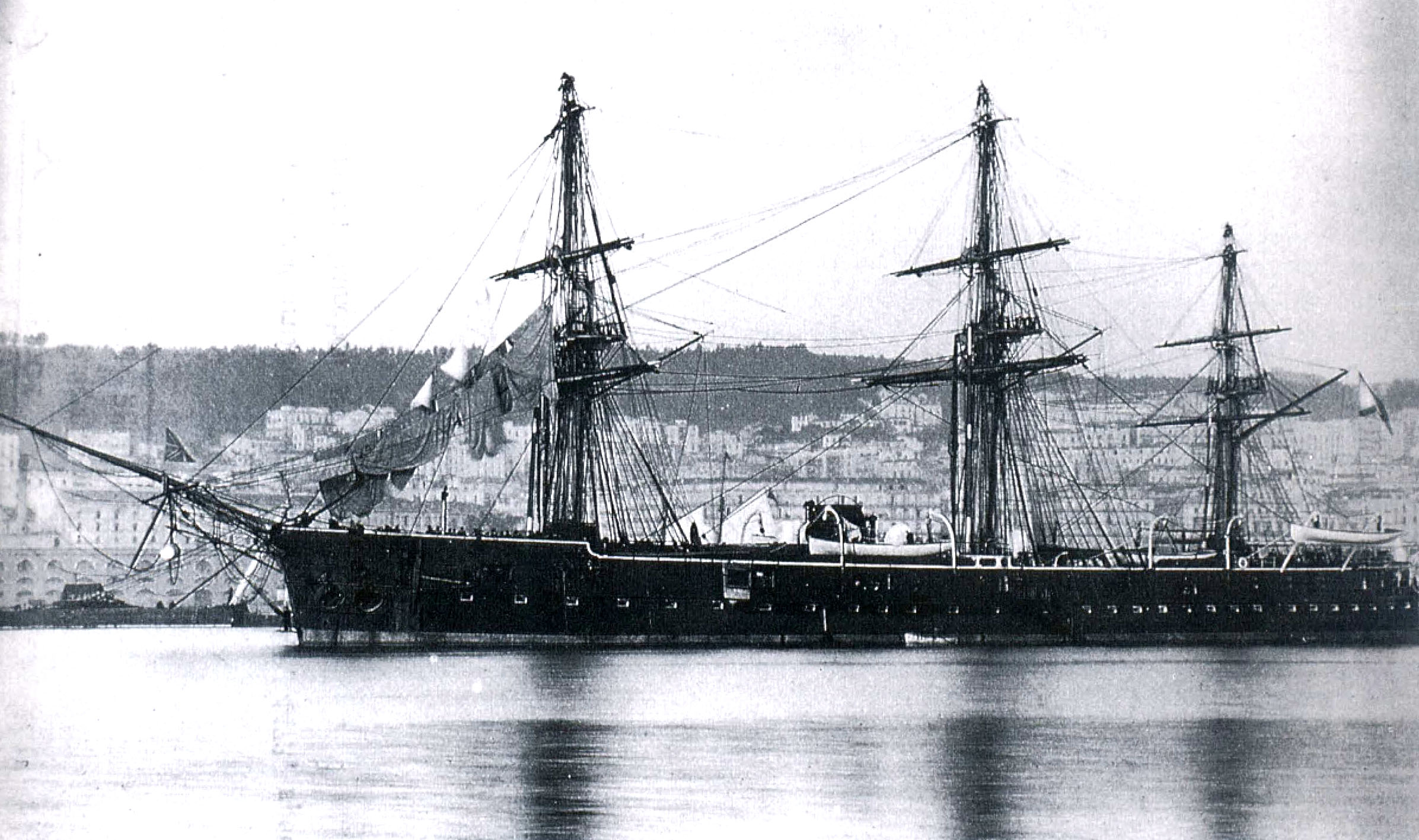 The Imperial Russian crusier «General-Admiral».